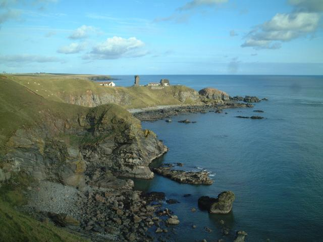 Old Slains Castle. The inspiration for Bram Stokers Dracula's Castle.